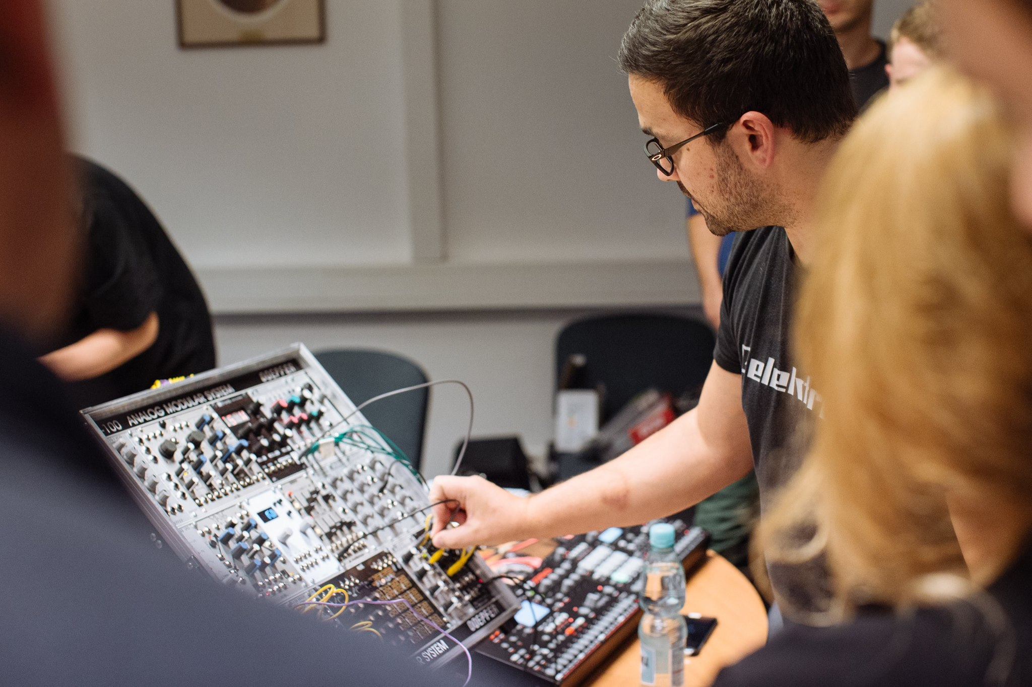 Mikey Tweak showing his modular during 4th Beat Tools workshop